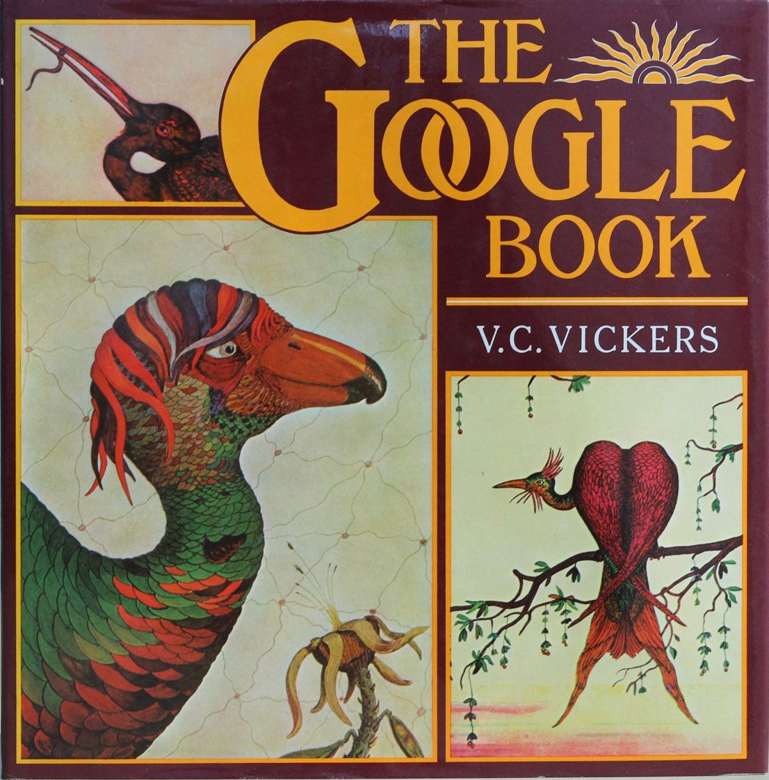 The cover of The Google Book, by Vincent Cartwright Vickers